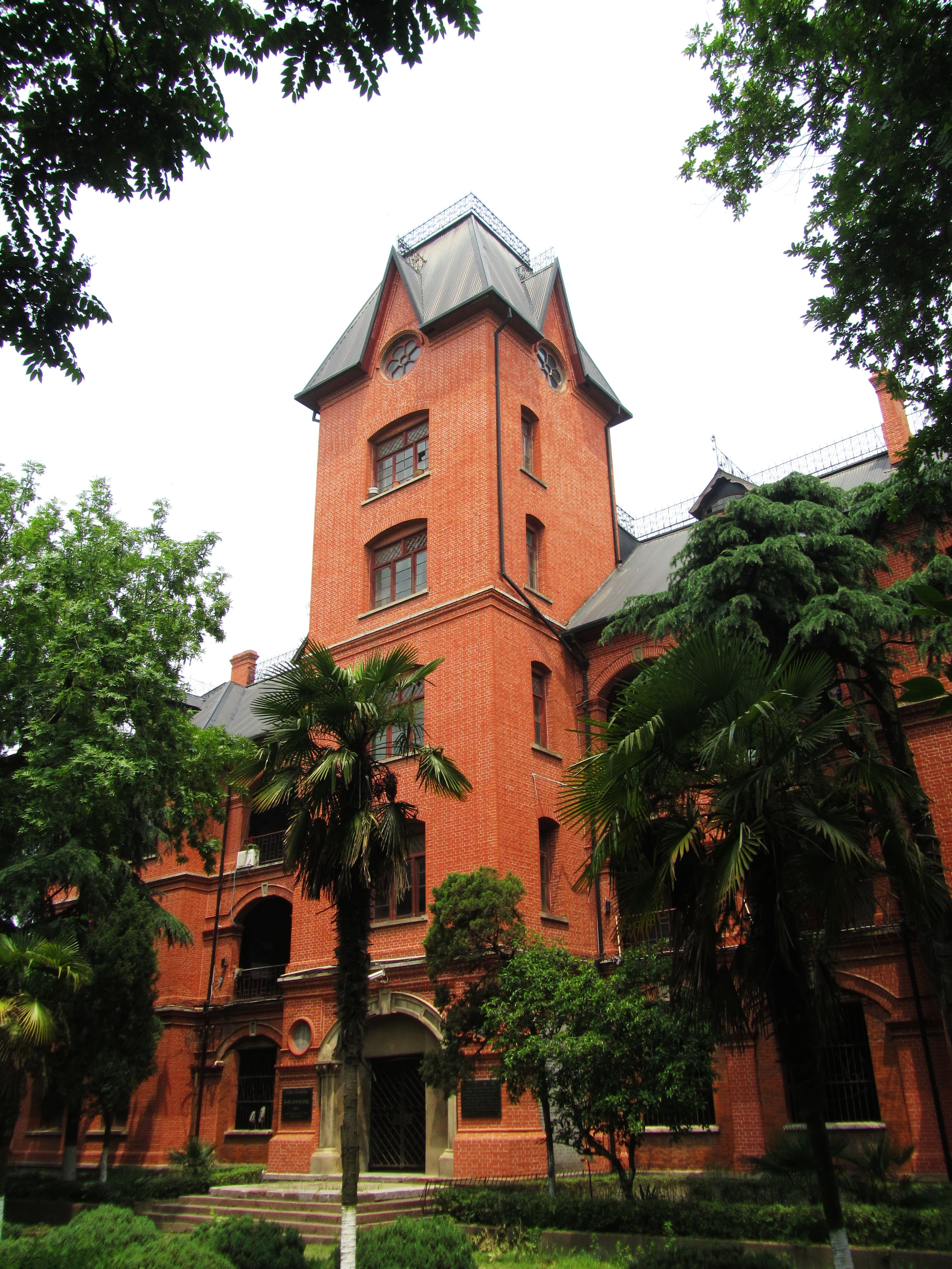 Old site of St Jacob Middle School in the campus of No.11 Middle School in Wuhu, Anhui, China.